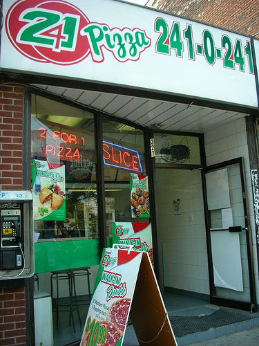 241 Pizza Store in Toronto.